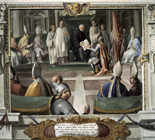 Coronation of Zvonimir from the Vatican archives. unknown author, dated 1611